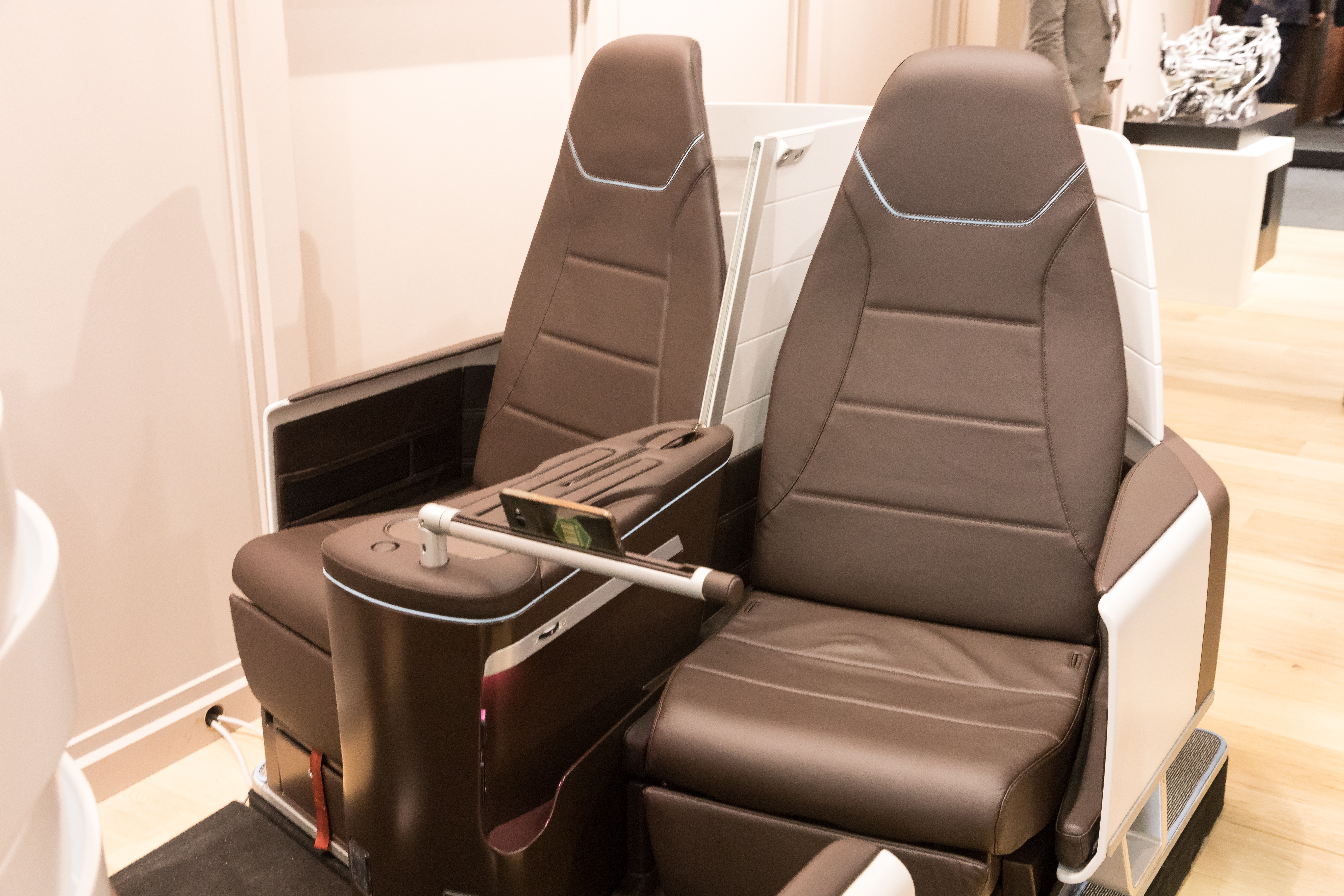 Passenger Experience Week 2018, Hamburg